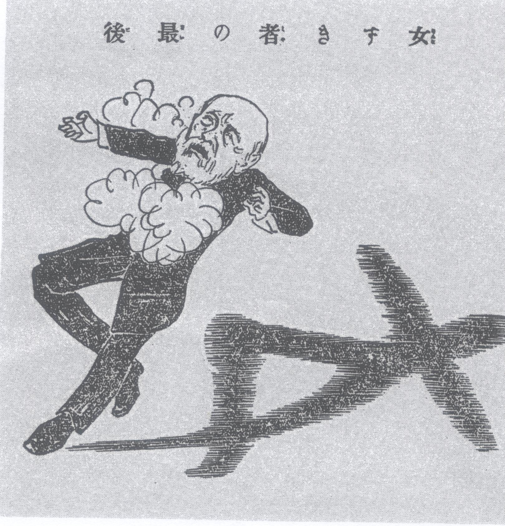 A cartoon about Ito Hirobumi's death. It says, "The end of the guy who was greedy for carnal pleasures"